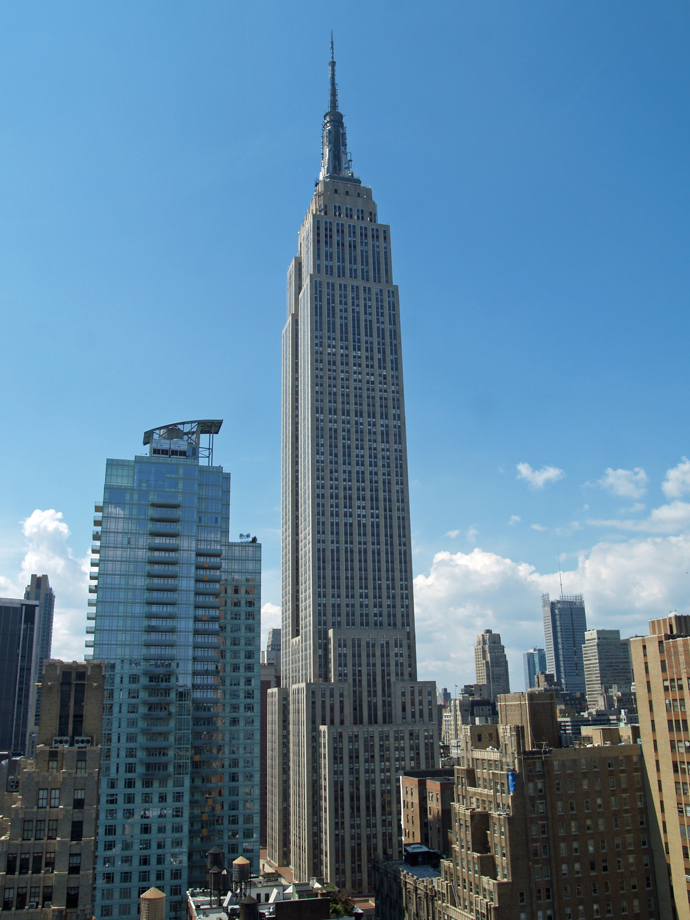 Empire State Building from a Park Avenue skyscraper.